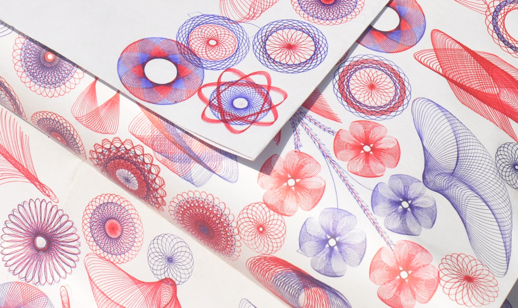 This media file is uploaded with India loves Wikipedia event. mathematical curves of the variety technically known as hypotrochoids and epitrochoids produced by Spirograph, a geometric drawing toy